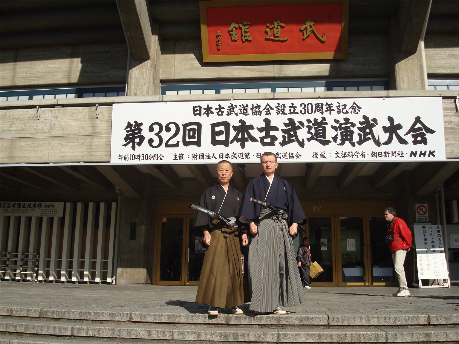 Sekiguchi Sensei Slawatycki Sensei pred Nippon Budokan 2-2009